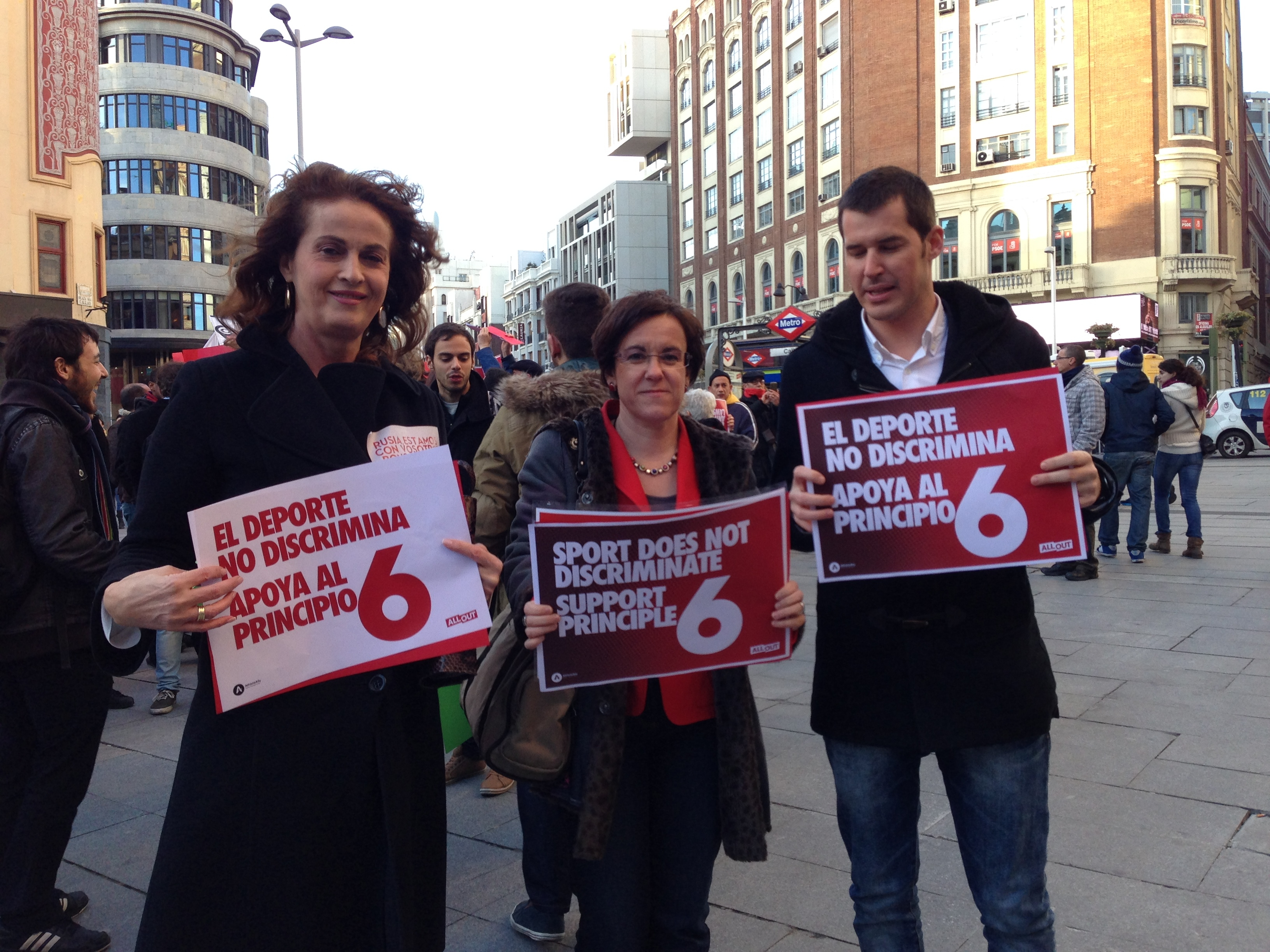 Carla Antonelli and Puri Causapié. Principle 6, a campaign inspired by the values of the Olympic charter, is a way for athletes, fans and global supporters to celebrate the Olympic principle of non-discrimination and speak out against Russia’s anti-gay laws before the 2014 Winter Olympics in Sochi.